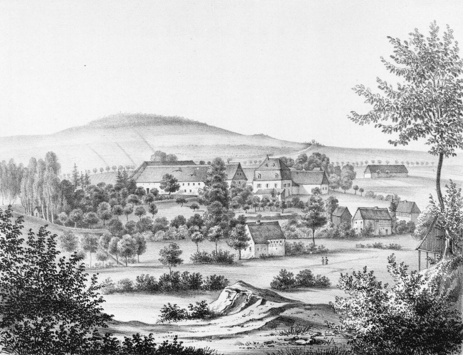 manor Mittelsaida in the Erzgebirge